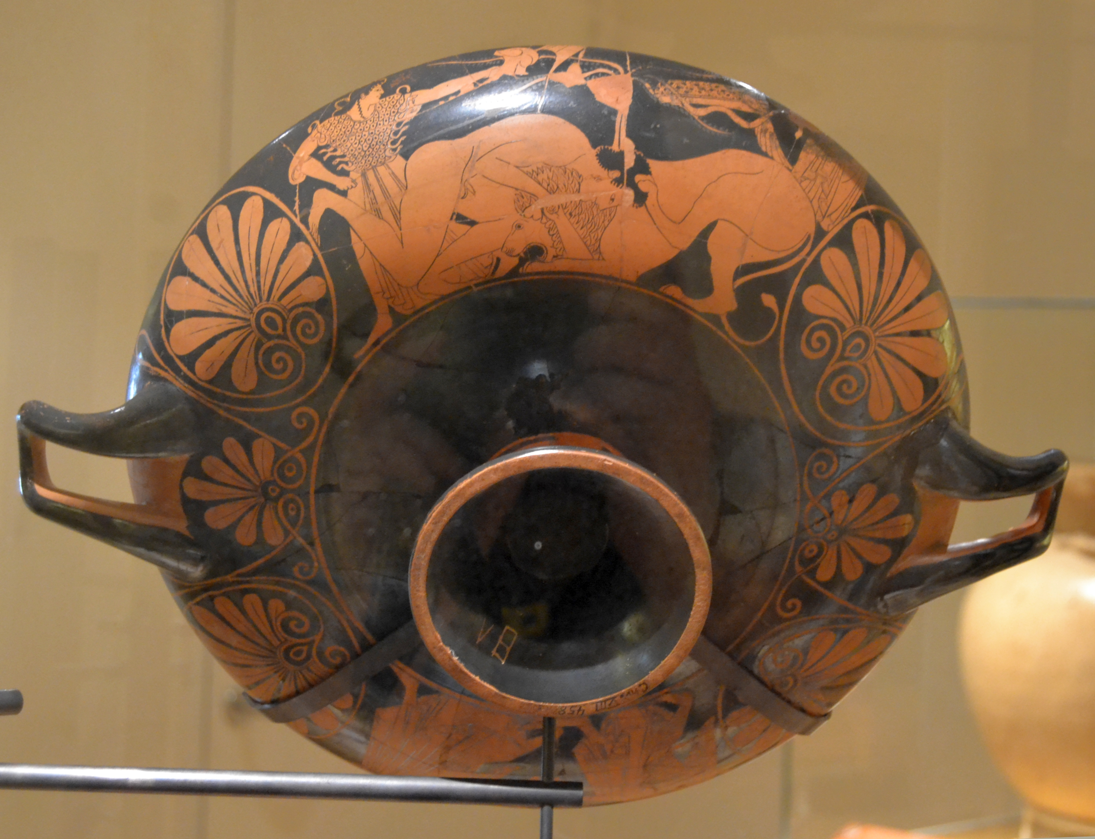 Fabric: ATHENIAN Technique: RED-FIGURE Shape Name: CUP Provenance: ITALY, ETRURIA, VULCI Date: -525 to -475 Inscriptions: Kalos/Kale: KALOS CHAROPHS Transcription: CHAROPS Attributed To: CHAROPS P by BEAZLEY Decoration: A: HERAKLES AND THE LION, ATHENA B: MAENADS WITH SNAKE, KANTHAROS, THYRSOS, KROTALA I: ARCHER Current Collection: Copenhagen, National Museum: CHRVIII458 Previous Collections: Copenhagen, National Museum: 127 Publication Record: Acta Archaeologica: 64 (1993) 151, FIG.1 (PART OF B) Beazley, J.D., Attic Red-Figure Vase-Painters, 2nd edition (Oxford, 1963): 138.1 Beazley, J.D., Attic Red-figure Vase-painters, 1st ed. (Oxford, 1942): 113.1 Corpus Vasorum Antiquorum: COPENHAGEN, NATIONAL MUSEUM 3, 108, PLS.(138,139) 136.1A, 136.1B, 136.1C, 137.1A, 137.1B View Whole CVA Plates Denoyelle, M. (ed.), Euphronios Peintre, Recontres de l'Ecole du Louvre 10 Octobre 1990 (Paris, 1992): 56, FIG.9 (A) Lexicon Iconographicum Mythologiae Classicae: V, PL.43, HERAKLES 1857 (A) Monumenti inediti pubblicati dall'Instituto di Corrispondenza Archeologica (Rome, 1829-91): I, PL.27.41